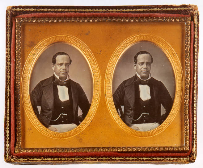 Title: [Antonio Lopez de Santa-Anna] Creator: Unknown Date: ca. 1855 Part Of: Lawrence T. Jones III Texas photography collection Description: This portrait is considered to be Antonio Lopez de Santa-Anna (1794-1876), as confirmed by Josefina Vasquez, an expert on Santa-Anna and by Michael Mathes, a historian and Mexican history expert. Physical Description: 1 photograph: sixth plate daguerreotype; 7 x 8.3 cm. Form/Genre: Daguerreotypes; Photographs; Portrait photographs File: santaanna1.tif Rights: Please cite Southern Methodist University, Central University Libraries, DeGolyer Library when using this image file. A high-quality version of this file may be obtained for a fee by contacting . For more information, see: View Lawrence T. Jones III Texas Photographs at